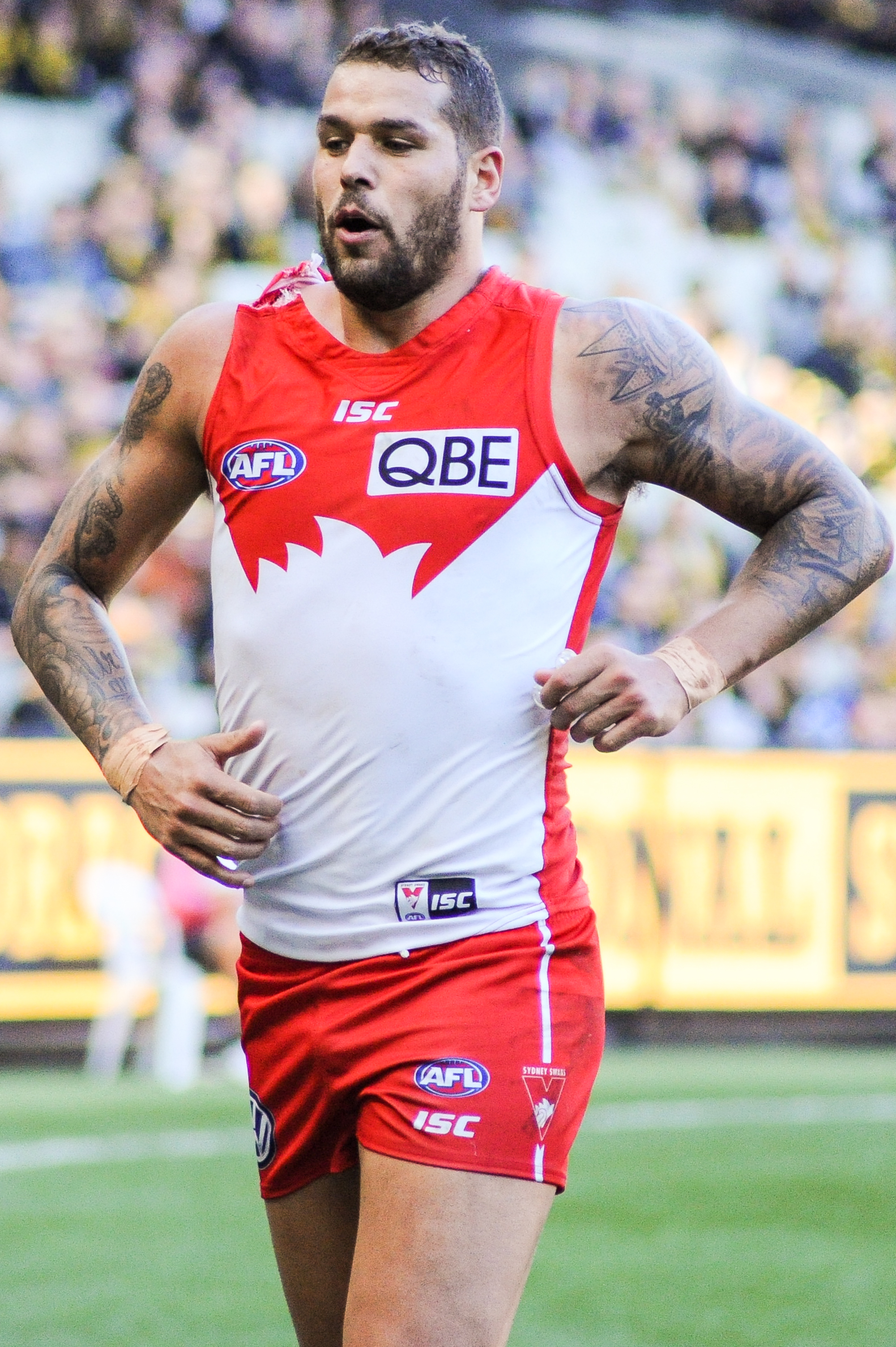 Lance Franklin during the AFL round thirteen match between Richmond and Sydney on 17 June 2017 at the Melbourne Cricket Ground in Melbourne, Victoria.